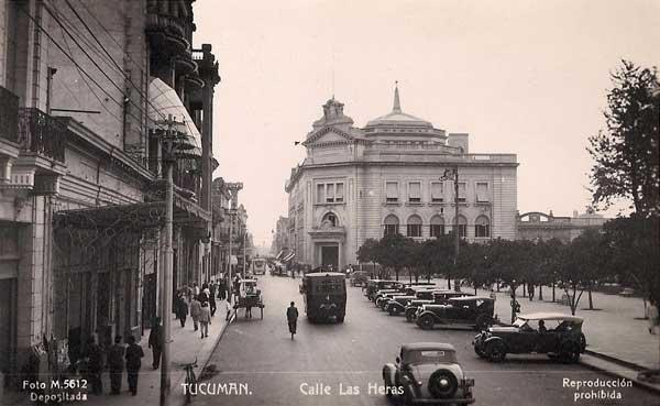 San Martin Street in the late 1920s, then known as Las Heras Street. San Miguel de Tucumán, Argentina.